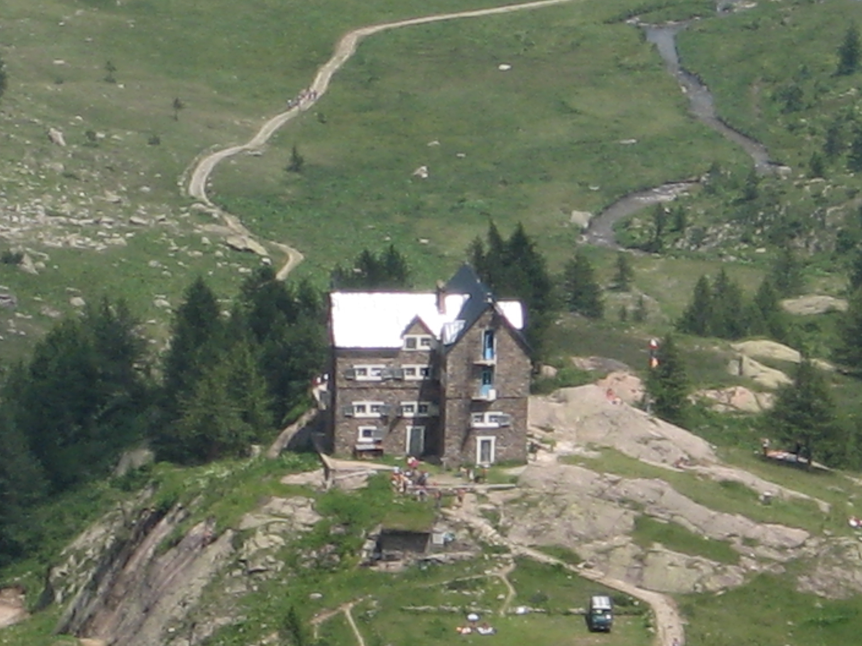 Migliorero mountain hut, Stura Valley (CN), Italy